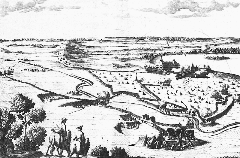 Siege of Biržai by Swedes in 1704.